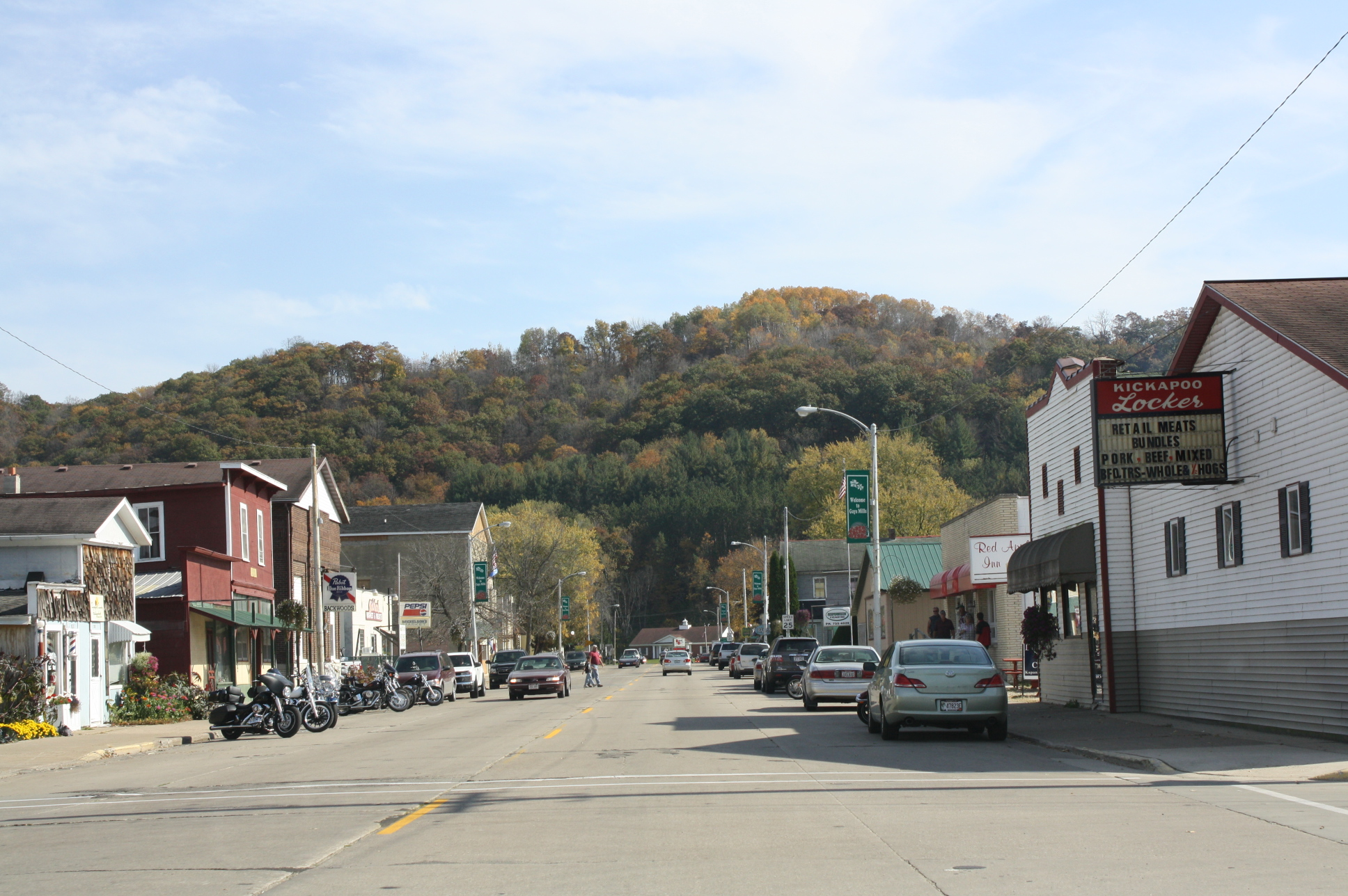 Looking east in downtown Gays Mills, Wisconsin along Wisconsin Highway 171.